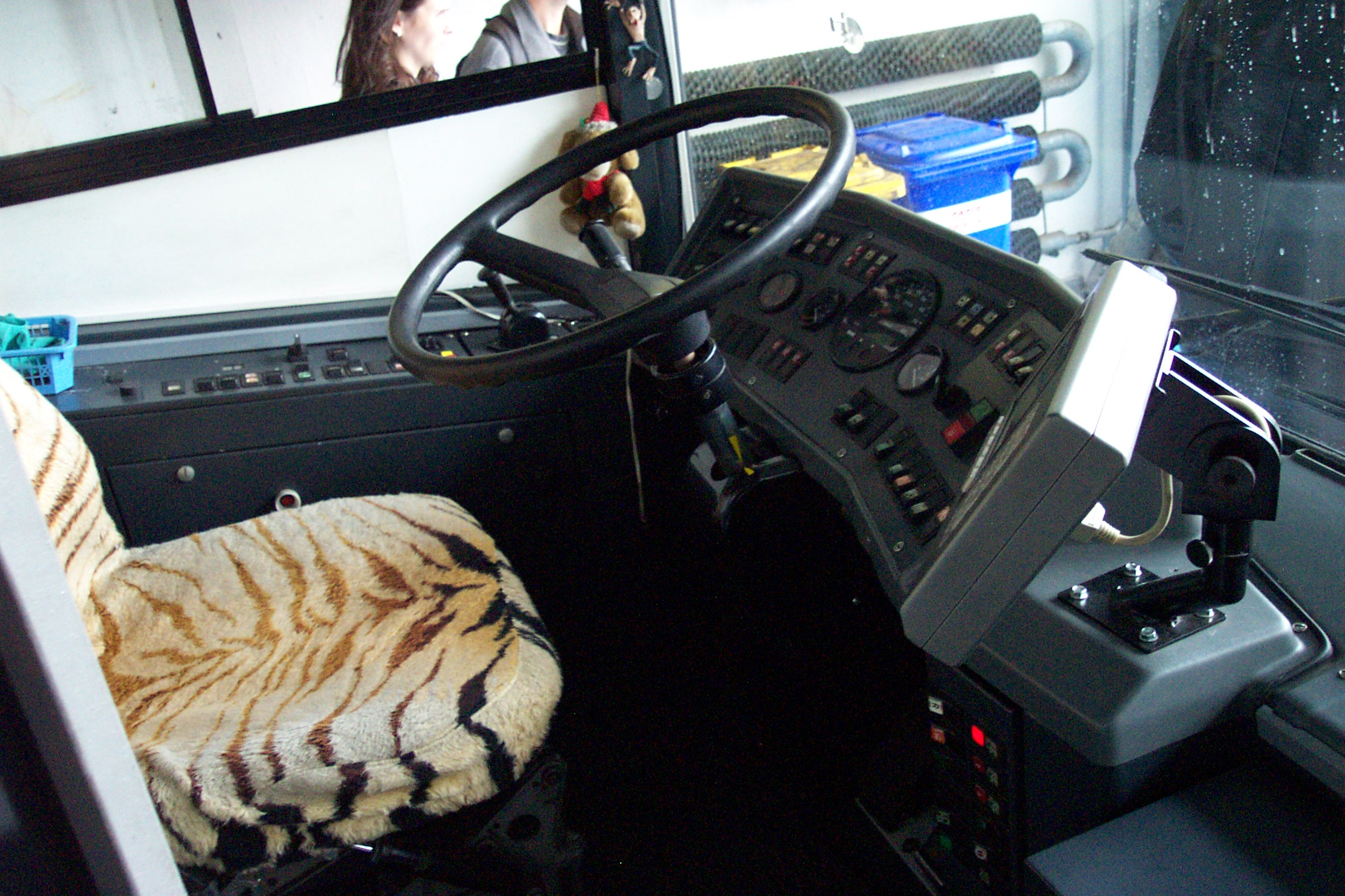 Czech trolleybus Škoda 21Tr at the 55 years of trolleybus transport in Pardubice.help